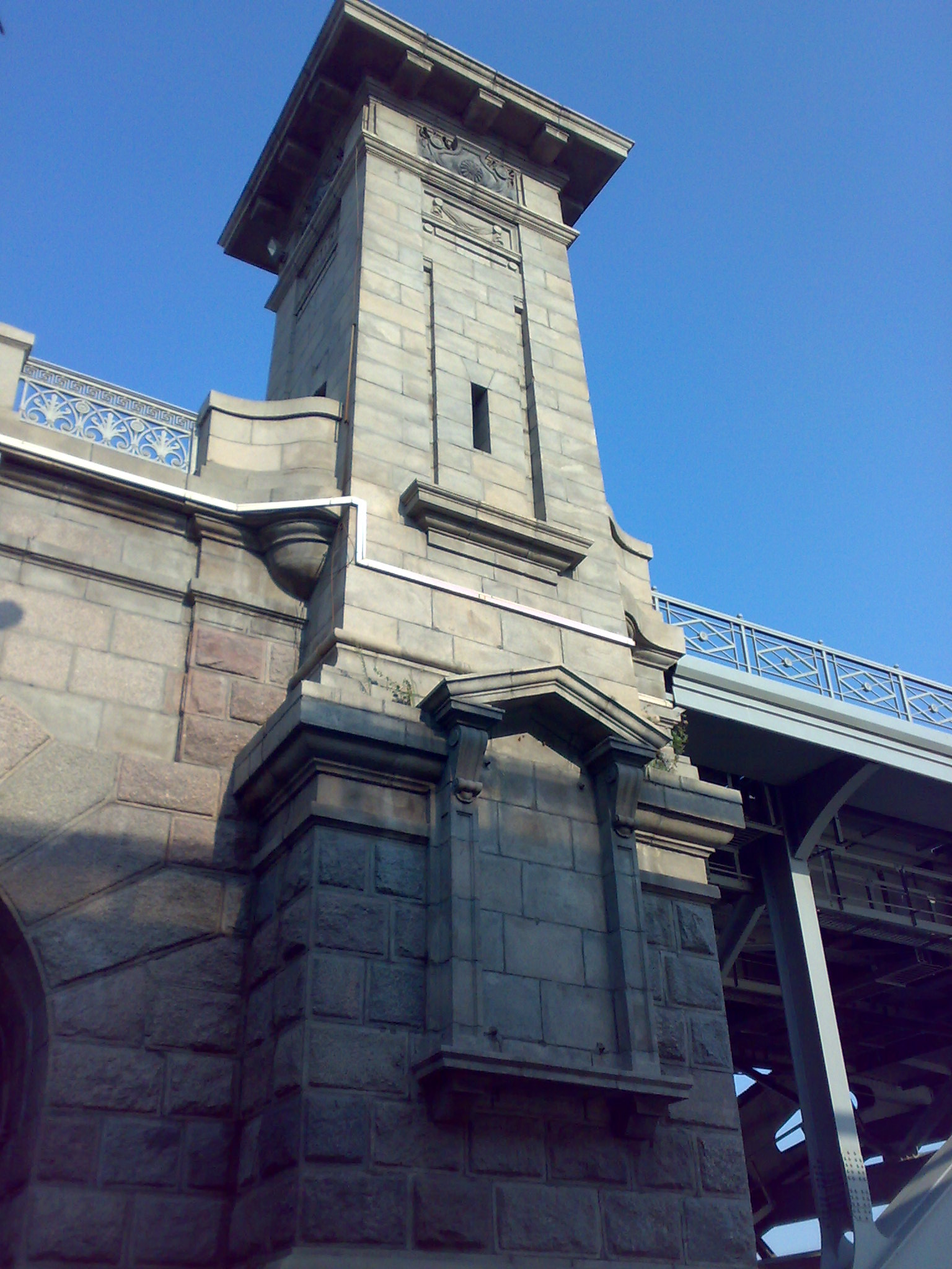 took this image using my mobile phone, on 7 September, 2008. Exterior of the northern approach of Krasnoluzhsky Rail Bridge, Moscow.